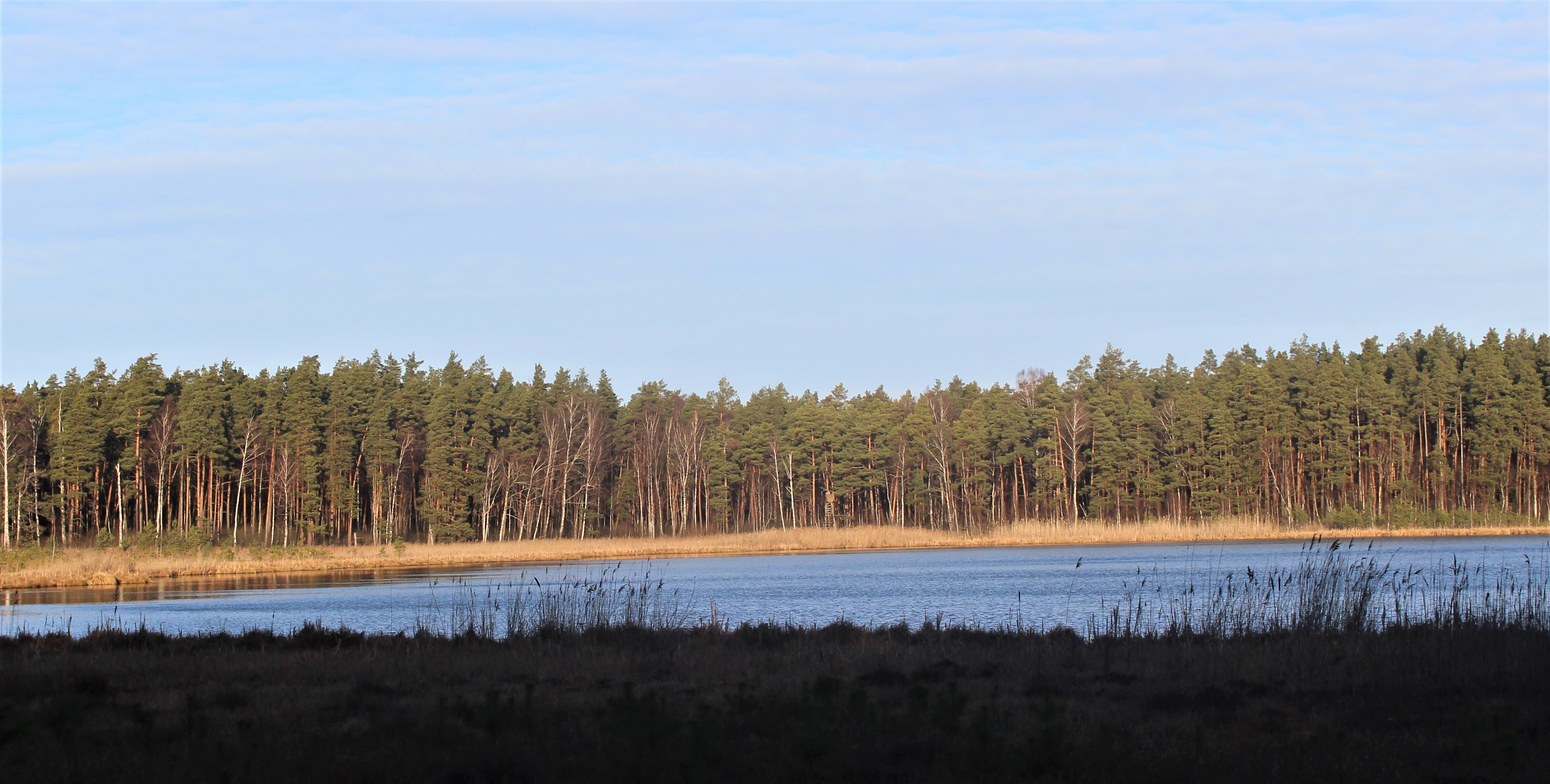 Vidusezers in Garkalne parish, Latvia, 31.12.2019. View from S.